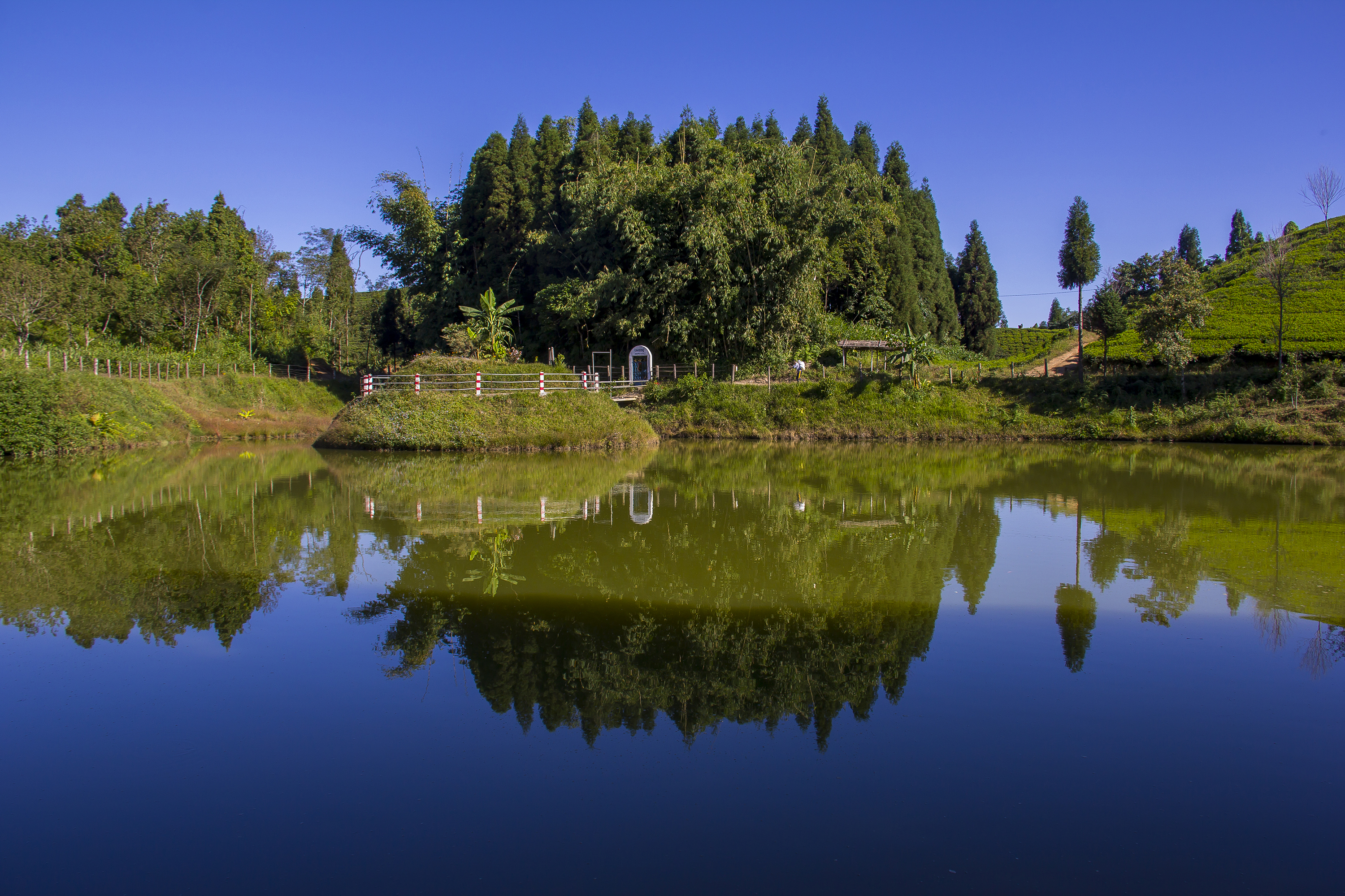 Water reflections of trees in Antu Pond, Ilam, Nepal